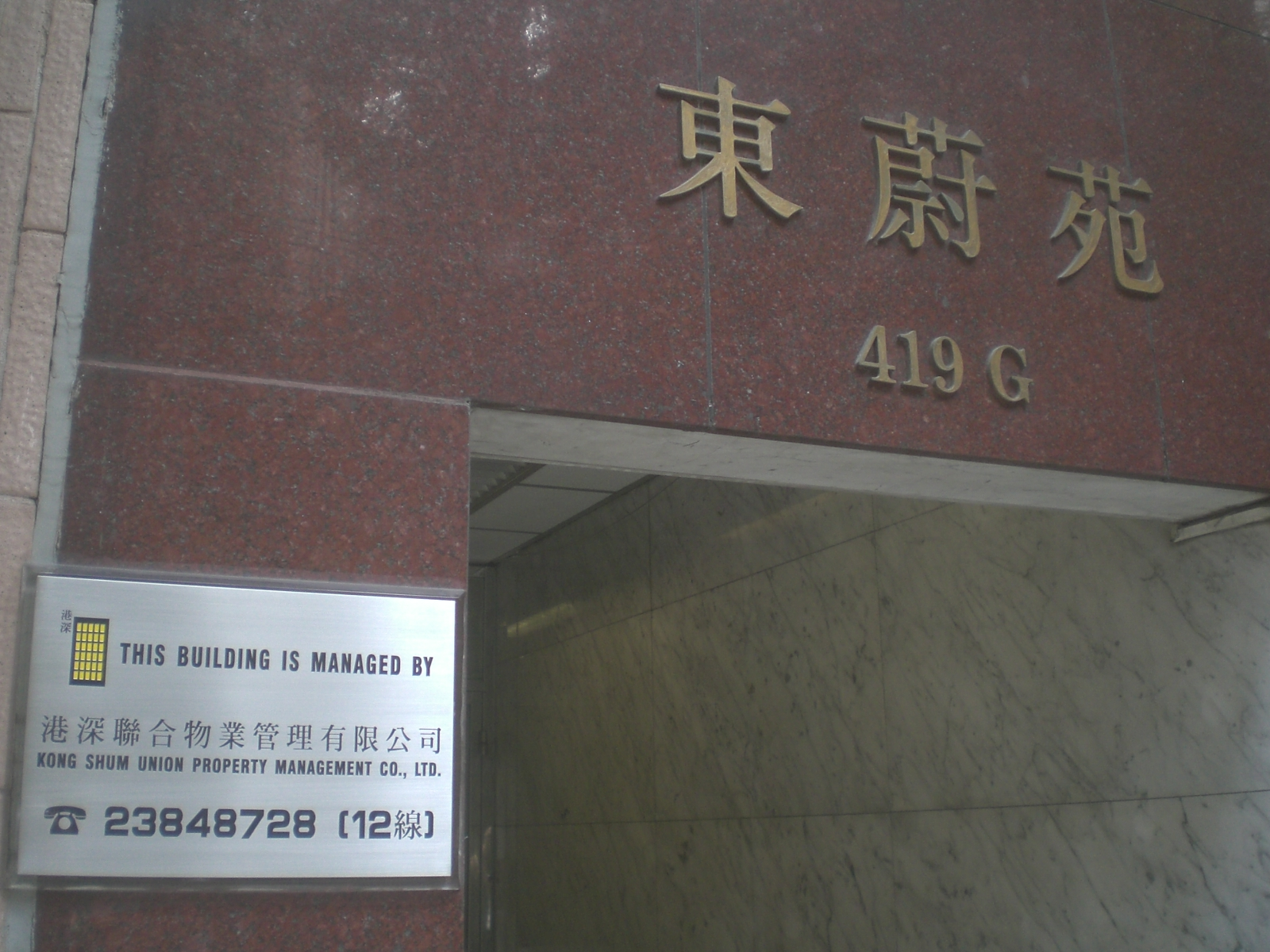 西環 皇后大道西 麻石 門面